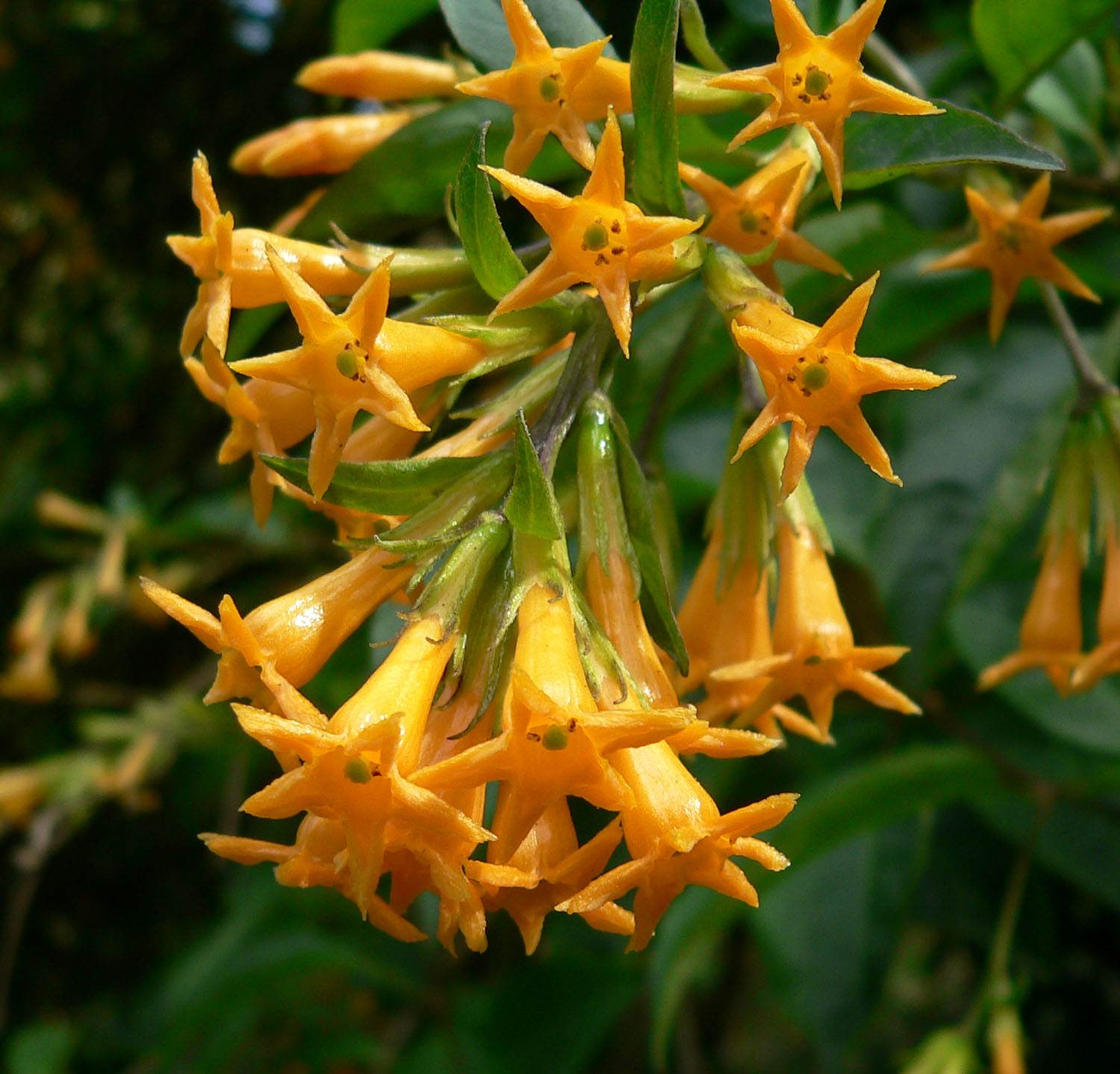 Photo of Cestrum aurantiacum at the San Francisco Botanical Garden